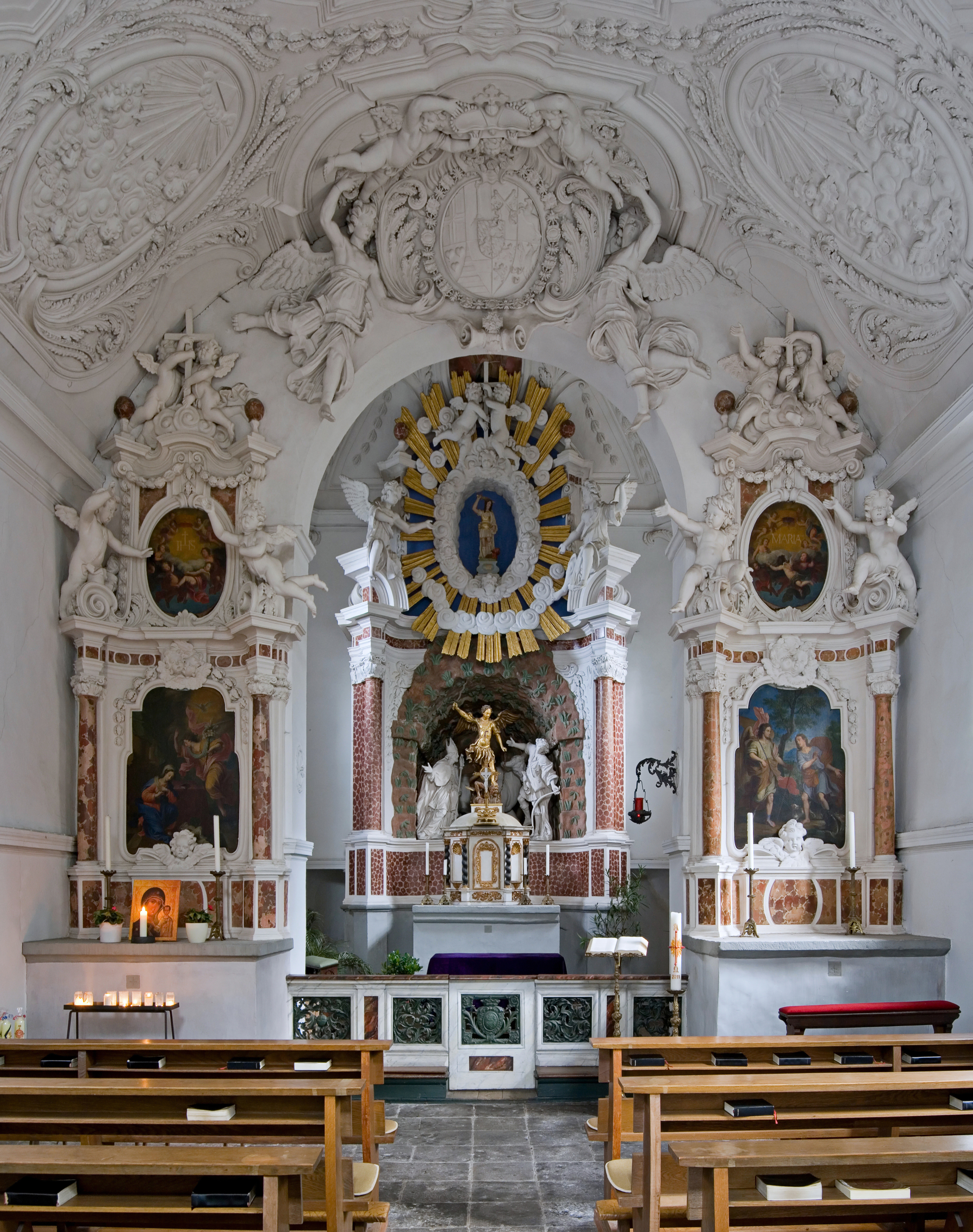 Bonn (North Rhine-Westphalia, Germany) – Bad Godesberg – St. Michael's Chapel – baroque interior Diese Fotografie wurde mit einer Nikon D3000 erstellt.